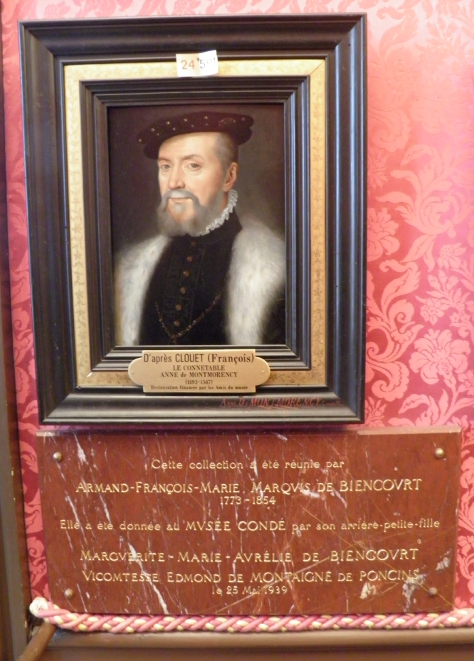 Plaque in honour of the gift of portraits in 1939. Above, portrait of Anne de Montmorency. Clouet Room, Musée Condé, Castle of Chantilly, France.